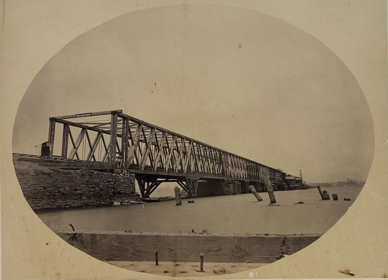 Title: Long Bridge, Washington, D.C. Abstract/medium: 1 photographic print : albumen.